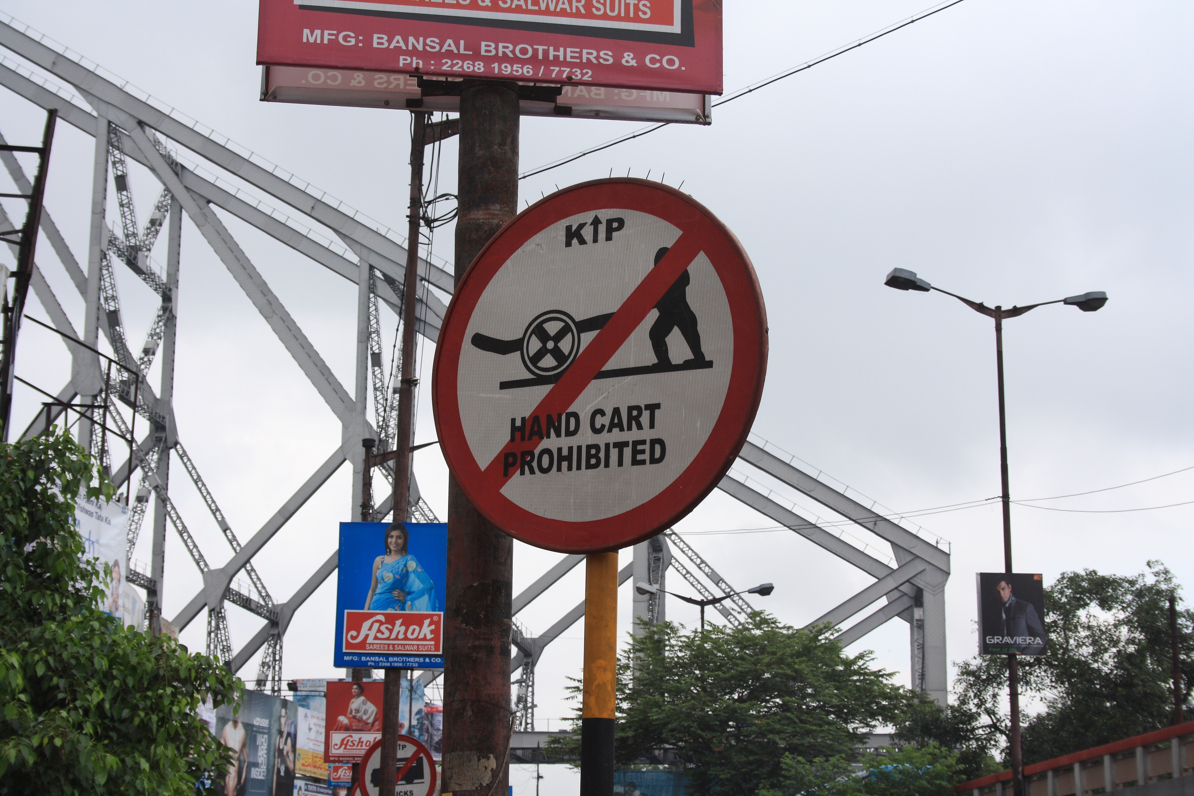 A traffic sign in Kolkata forbidding the circulation of hand carts on Howrah Bridge (background). Set up by Kolkata Traffic Police (KTP).